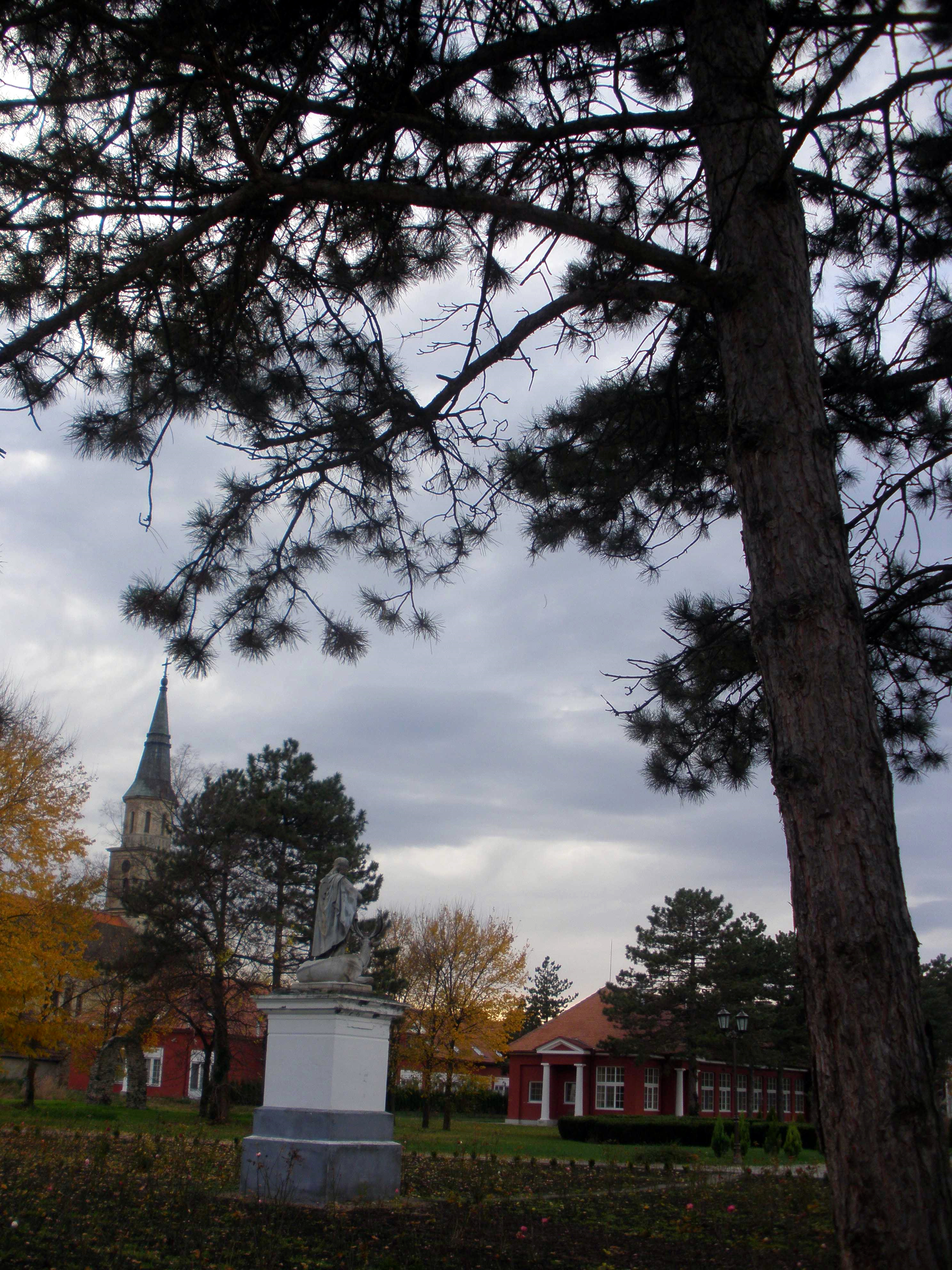 view to Castle in Ečka with pine, statue of St. Hubertus and Catholic church